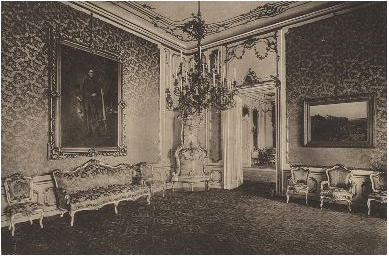 Room in the in the baroque part of the Royal Castle of Budapest.